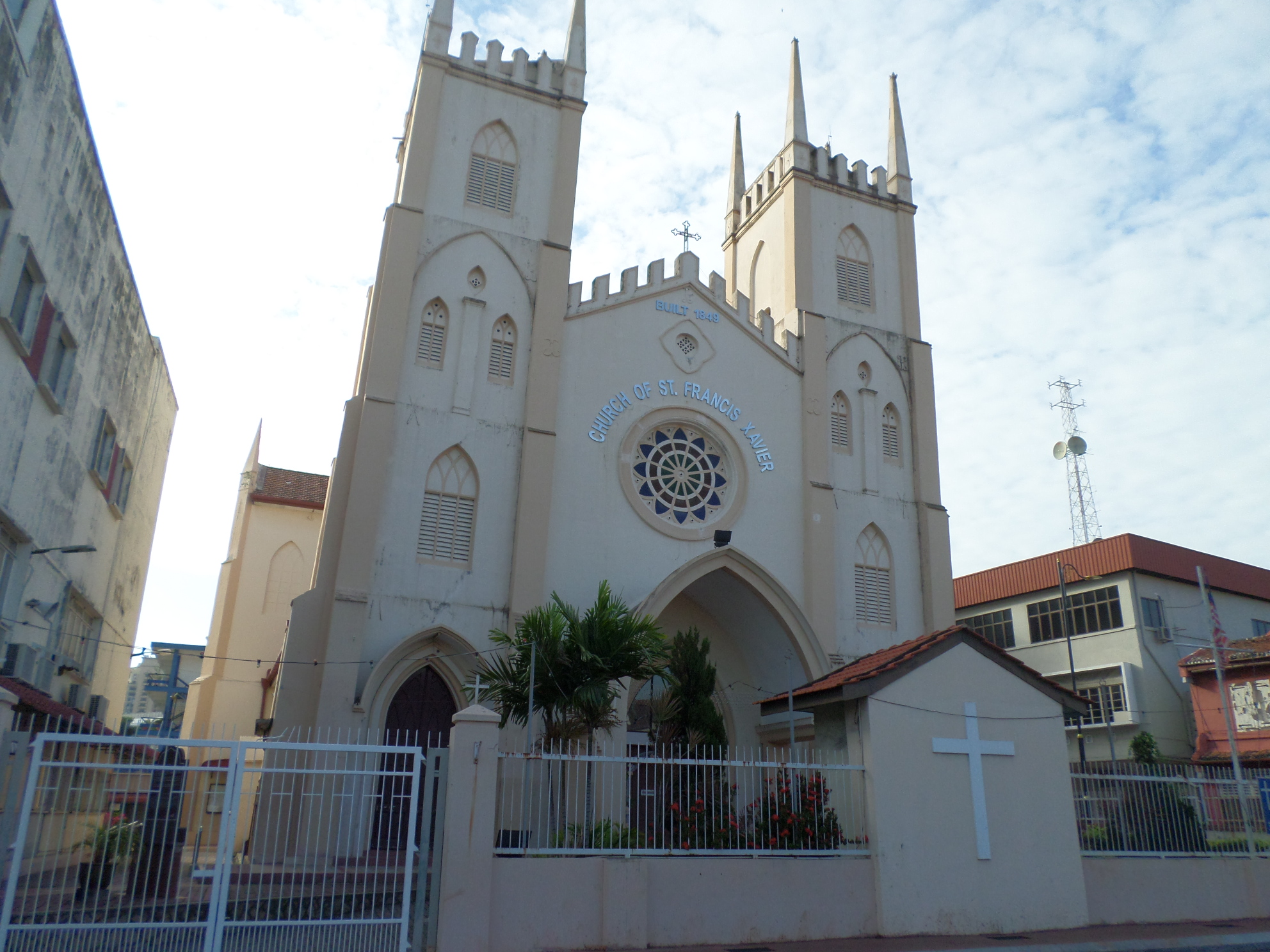 Church of St. Francis Xavier, Central Malacca, Malacca, Malaysia